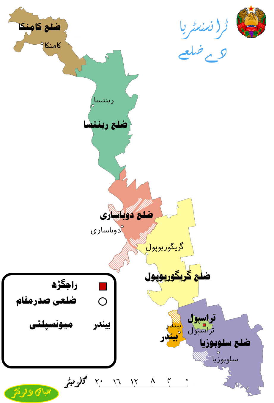 Map of districts of Transnistria in western Punjabi.